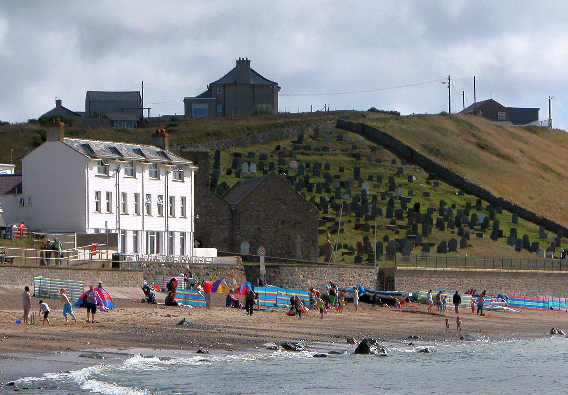 Crop of Aberdaron general view